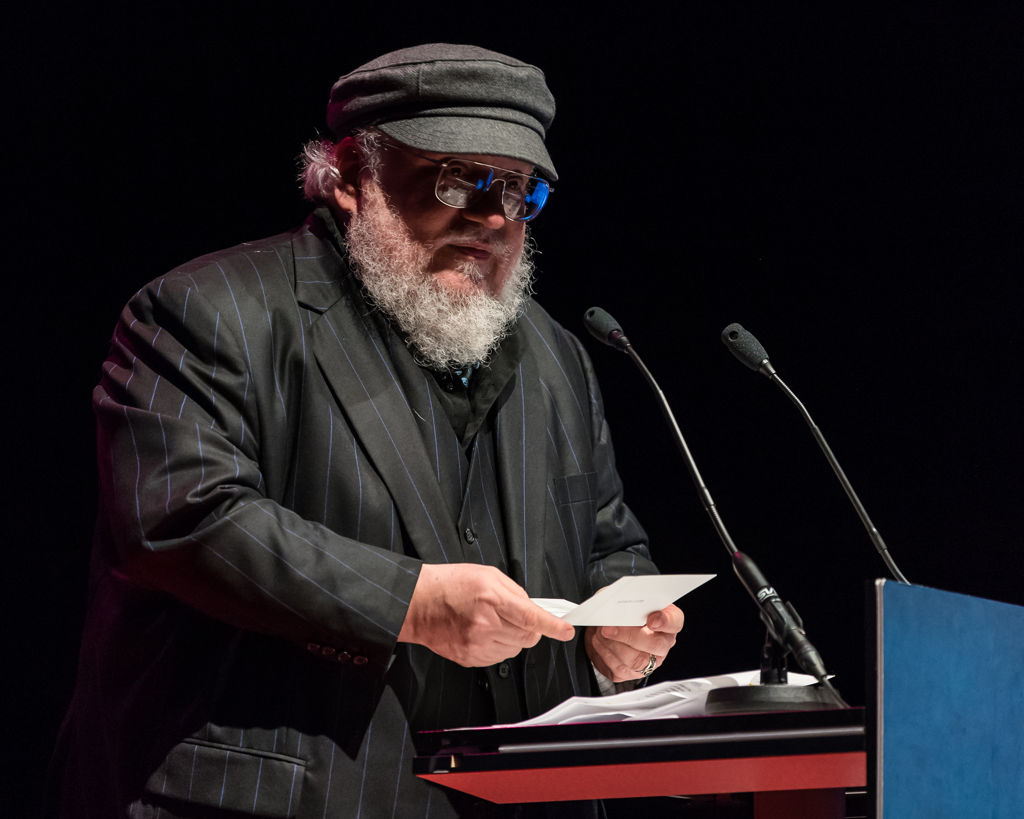 George R.R. Martin at the Hugo Award Ceremony 2017, Worldcon in Helsinki.